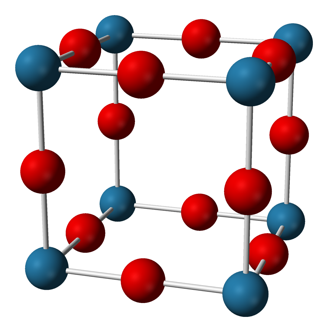 Ball-and-stick model of the unit cell of rhenium trioxide, ReO3